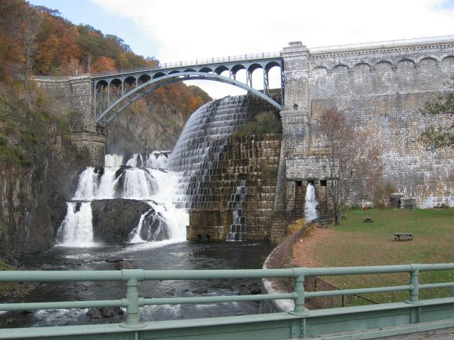 The view from the small bridge on the bottom.